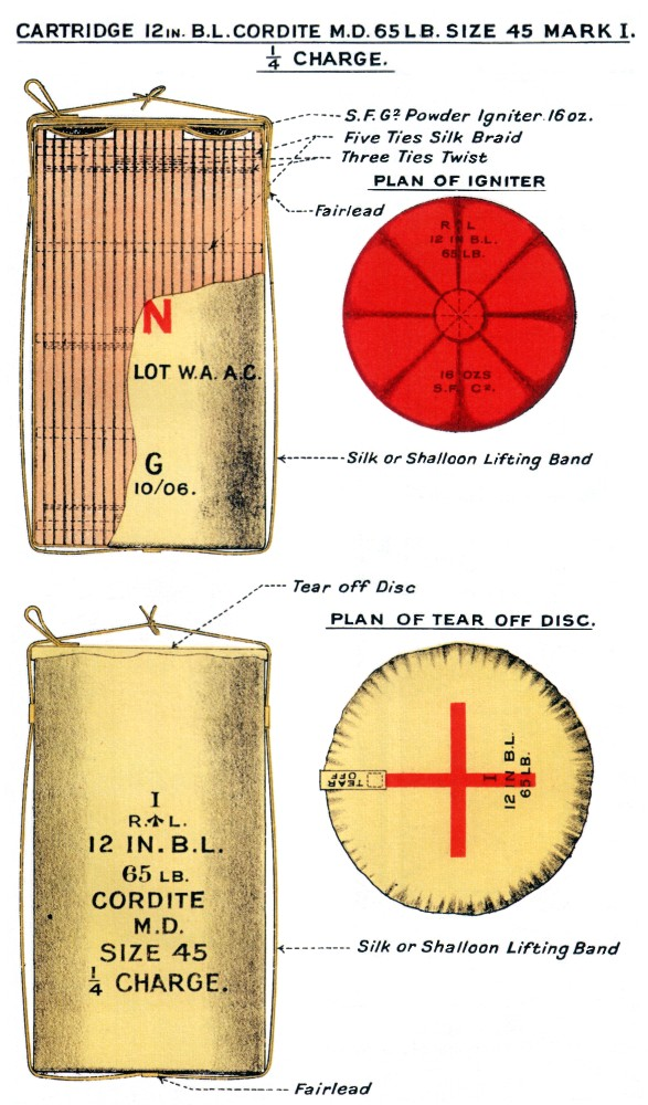 Diagram of British 65 lb, 1/4 charge Cordite cartridge Mk I, for BL 12 inch naval gun. 64 1/2 lbs Cordite M.D. size 45. Cut from 37-inch lengths. Igniter 16 oz R.F.G. 2 at one end. Length 18.8 inches, diameter 10.5 inches. For BL 12 inch Mk X and X* naval guns.